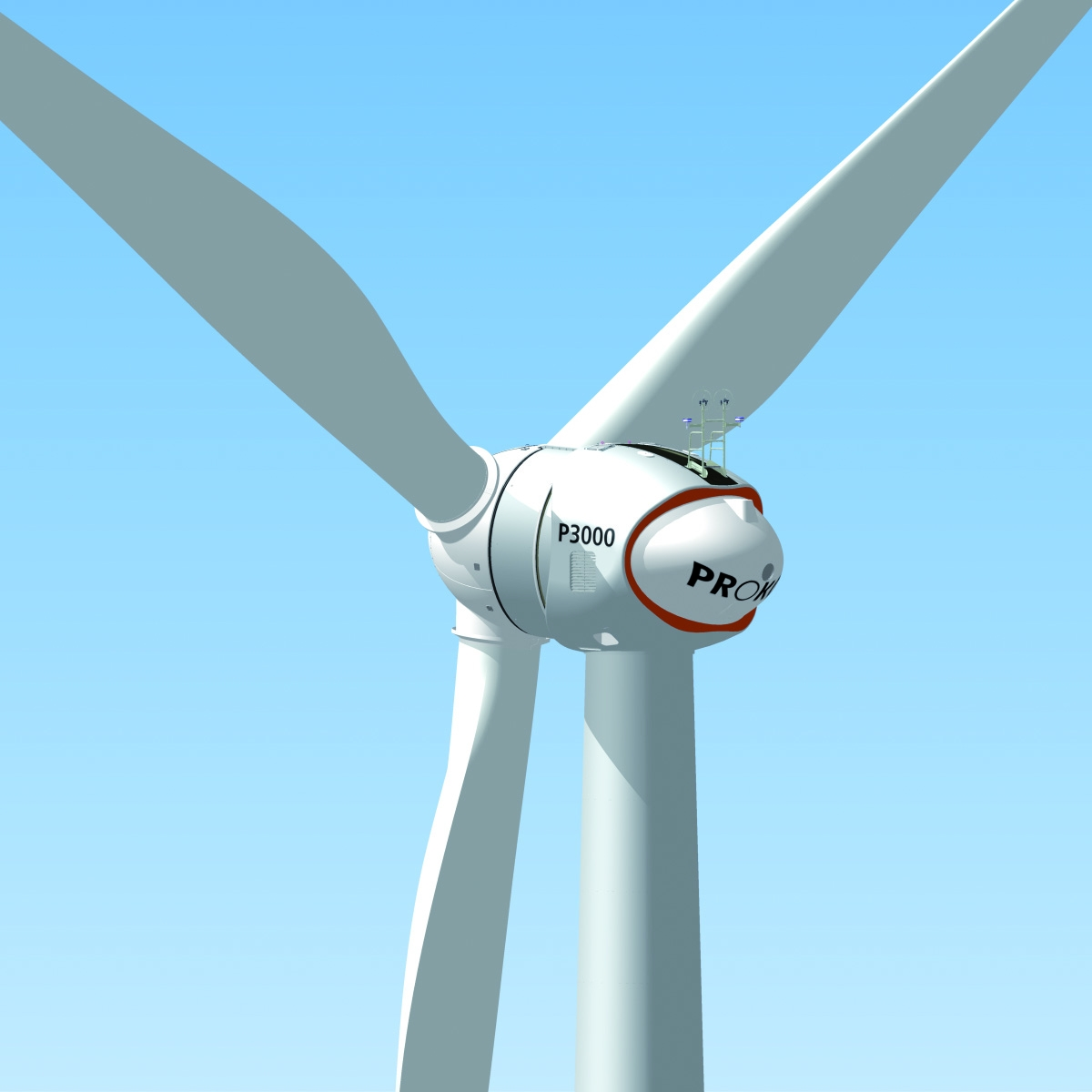 Transmissionless Windturbine